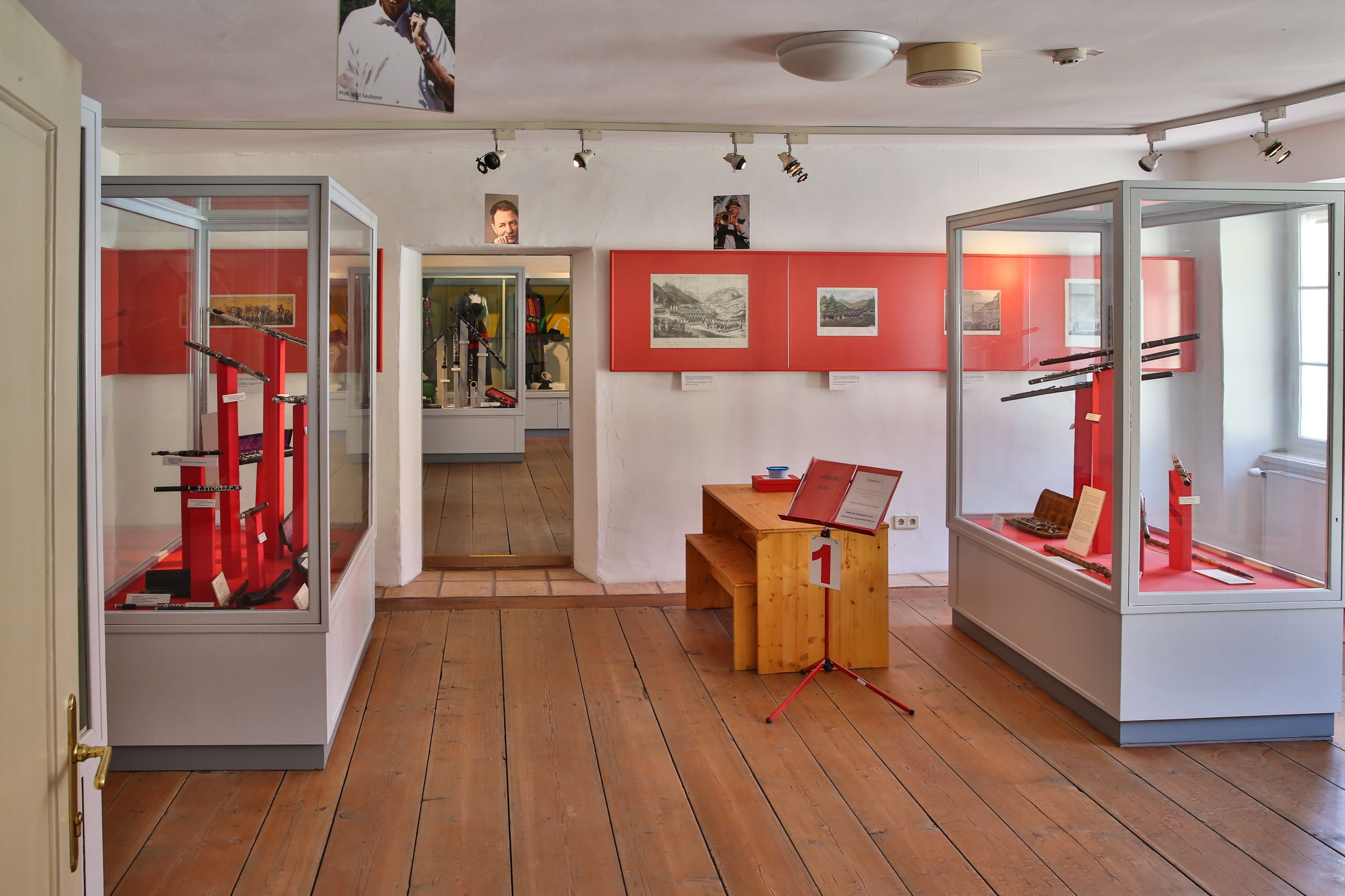 Austrian Brass Music Museum in Oberwölz / Styria / Austria / EU. Room with trumpets.